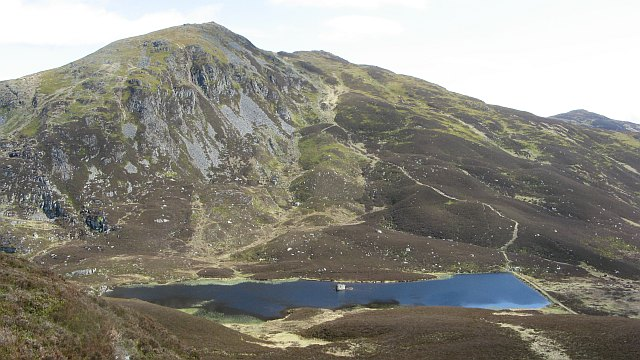 Ben Vrackie and Loch a' Choire Loch a' Choire is a small reservoir at the foot of the final pull up Ben Vrackie. As a result the picturesque loch with a boulder in the middle is a popular place for a break.